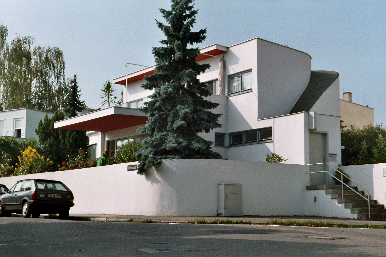 Stuttgart, Weissenhofsiedlung, house by Hans Scharoun. 1927, international style.